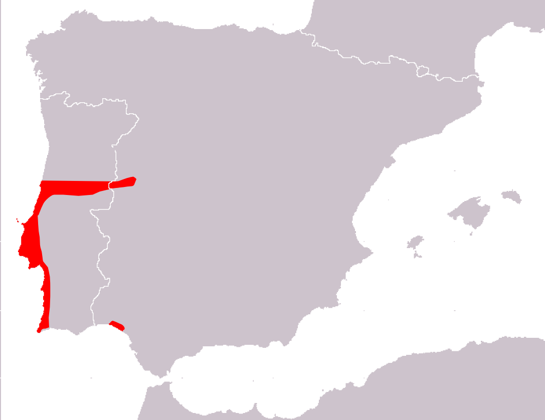 Podarcis carbonelli distribution range map.